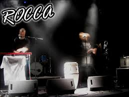 Live performance Debaser, Stockholm.